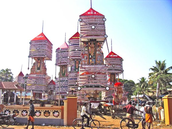 Chariots lined up - the Valiyakulangara Temple Aswathy Festival.